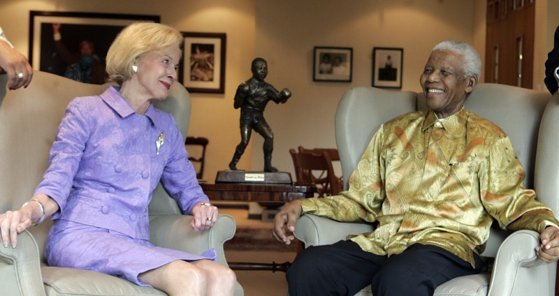 Australia's Governor-General Her Excellency Ms Quentin Bryce AC meets with Nelson Mandela